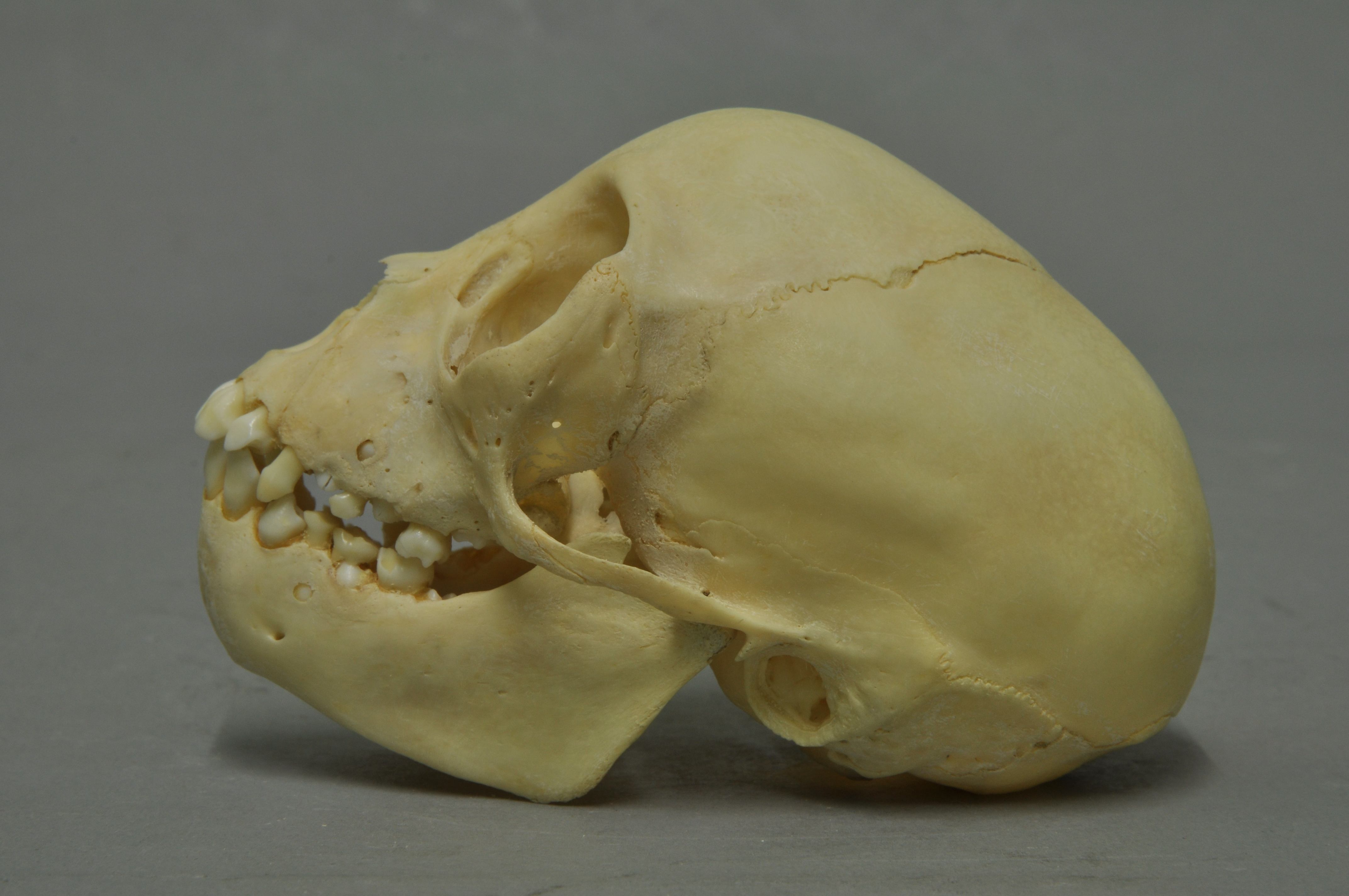 Red-faced Spider Monkey Ateles paniscus, skull, Coll. Museum Wiesbaden